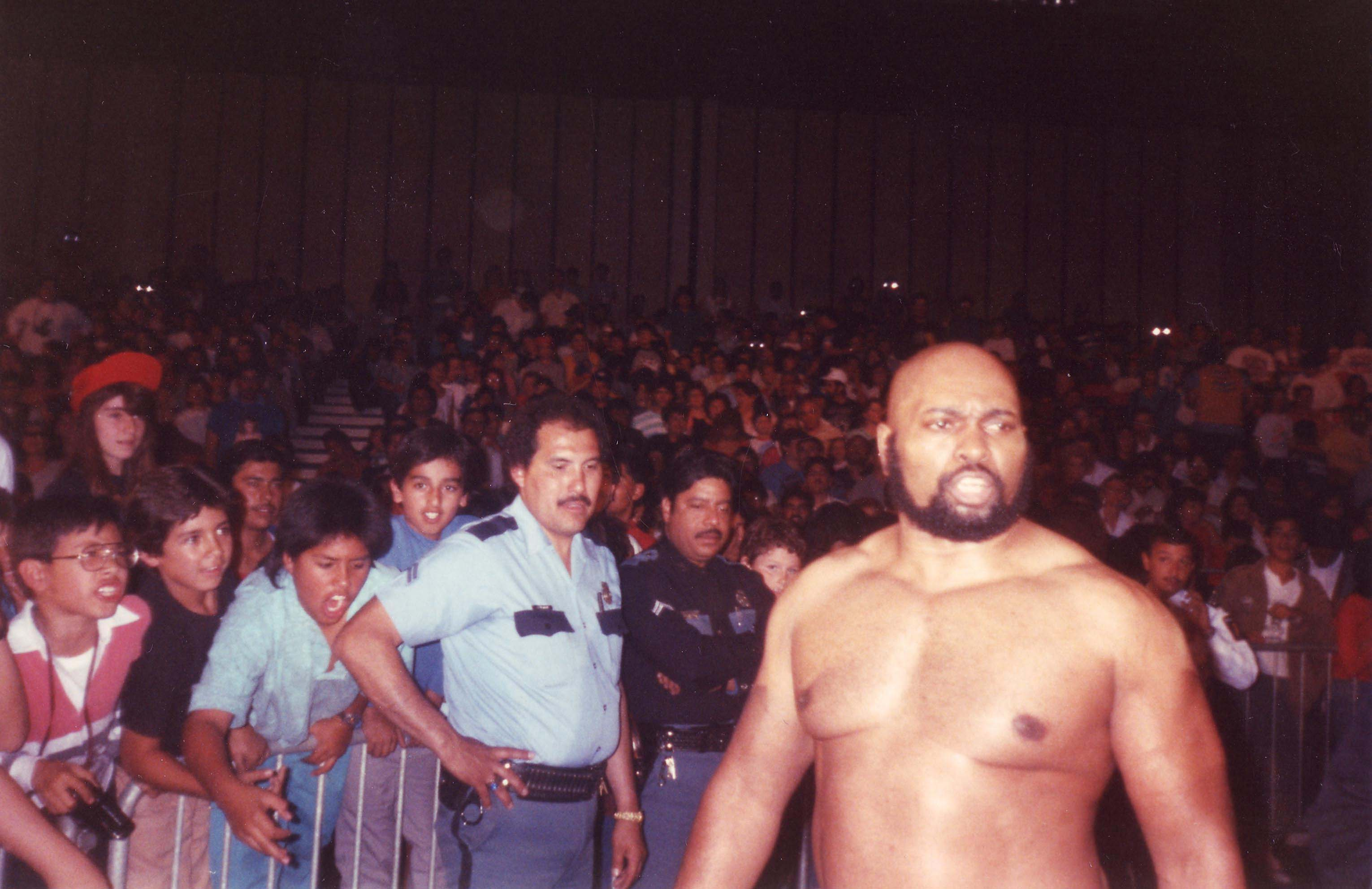 Bad News Brown